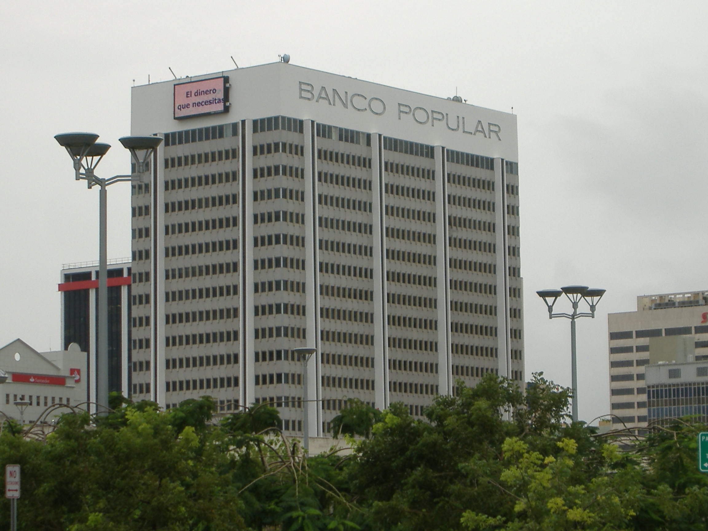 Banco Popular's headquarters in the Golden Mile District of Hato Rey, San Juan.